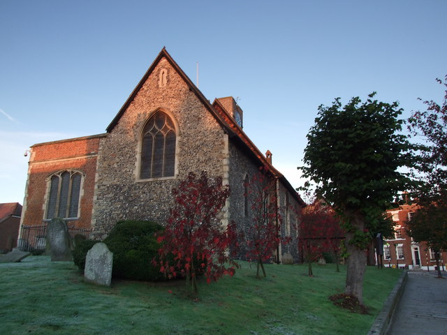 St Dunstans Church,Canterbury